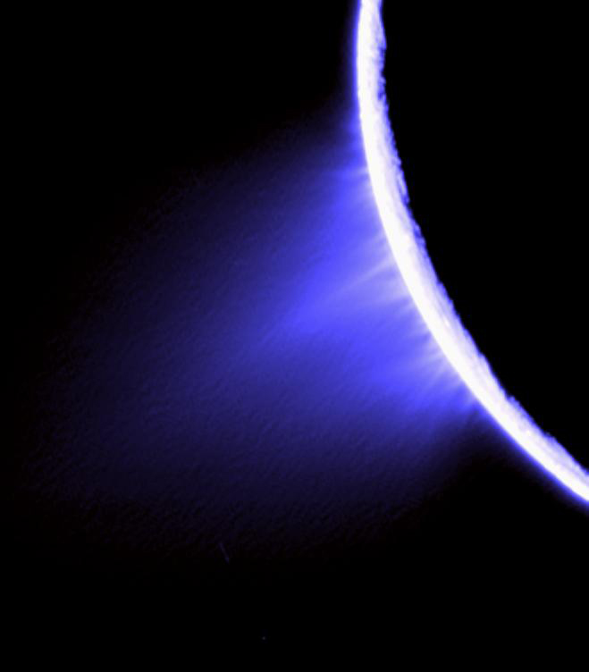 This is a false-color image of jets (blue areas) in the southern hemisphere of Enceladus taken with the Cassini spacecraft narrow-angle camera on Nov. 27, 2005. It has been processed to reveal the individual jets that comprise the plume.